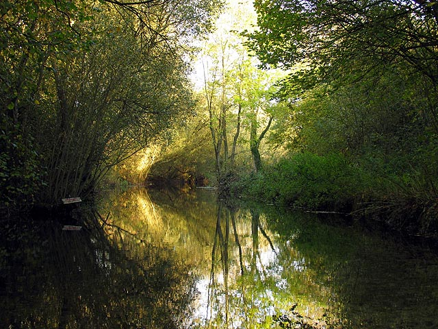 Reflections on the River Lambourn, near Weston in West Berkshire